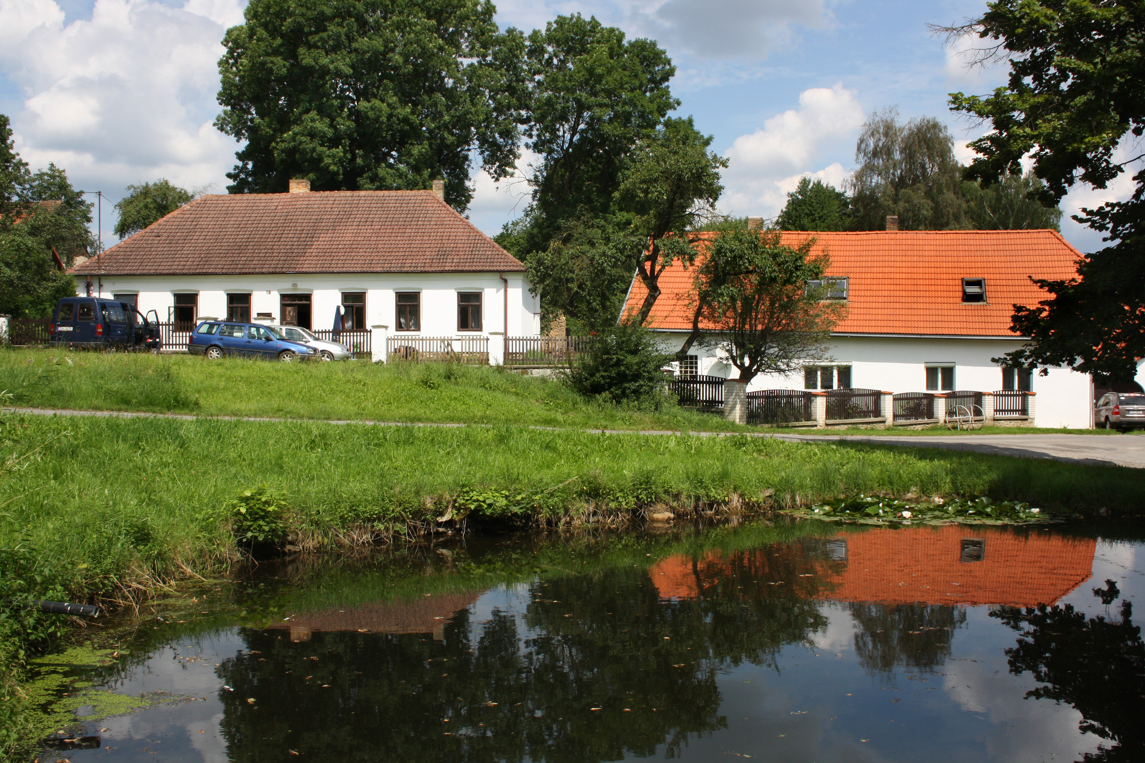 Small pond in Strměchy, part of Pelhřimov, Czech Republic